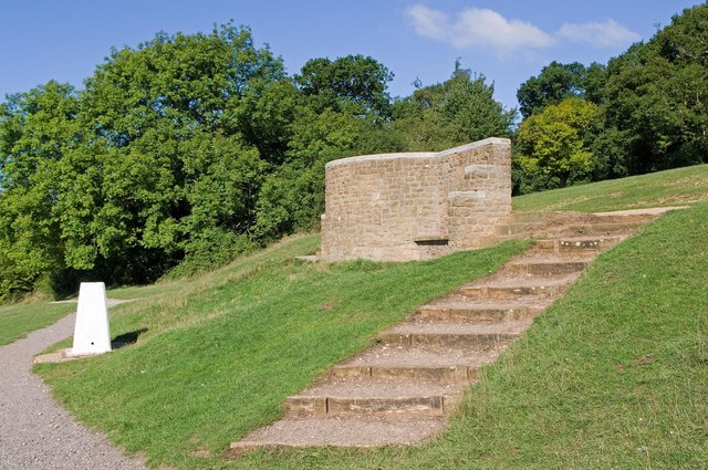 Salomons Memorial viewpoint at Box Hill, Surrey.